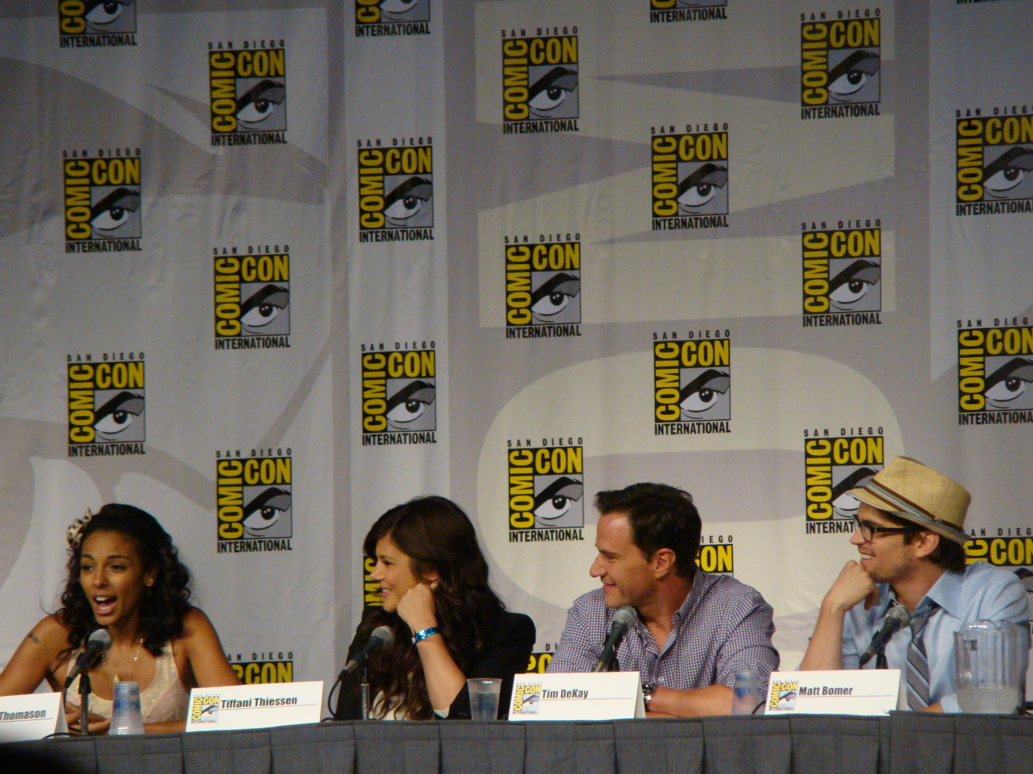 Marsha Thomason, Tiffani Thiessen, Tim DeKay & Matt Bomer